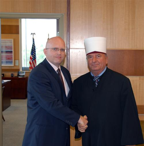 US Ambassador Reeker in Macedonia welcomes Reis Rexhepi to the U.S. Embassy